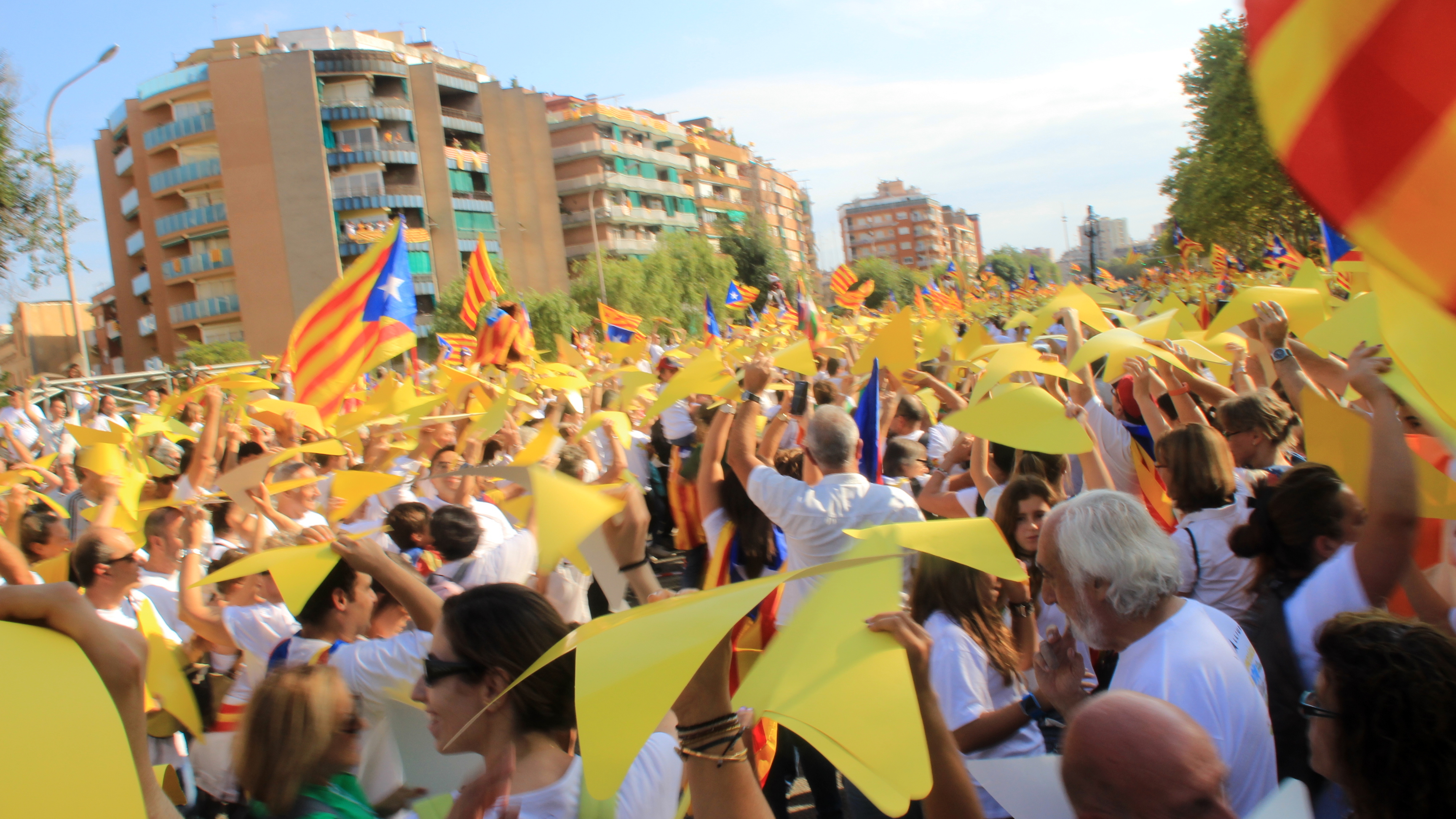 Picture taken just after the beginning of the event of the Via Lliure ("Free Way") 2015 that took place along the Meridiana Avenue of Barcelona in Catalonia's National Day (September the 11th) to demand an Independent Catalan Republic. In the picture, the participants raise their yellow arrows, a symbol of democracy, once the big arrow that had to travel along the Meridiana has passed through their section.